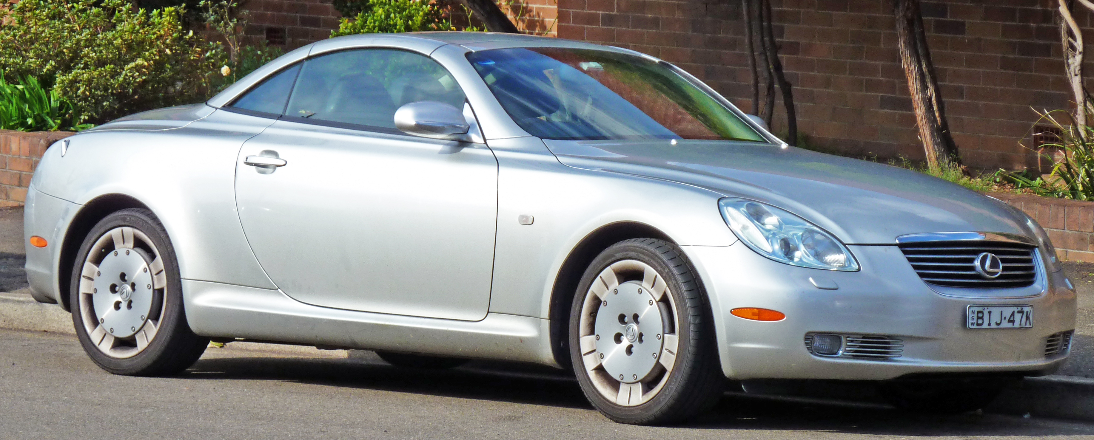 2001–2005 Lexus SC 430 (UZZ40R) convertible. Photographed in Hurstville, New South Wales, Australia.